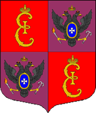 Pushkin (St. Petersburg), coat of arms